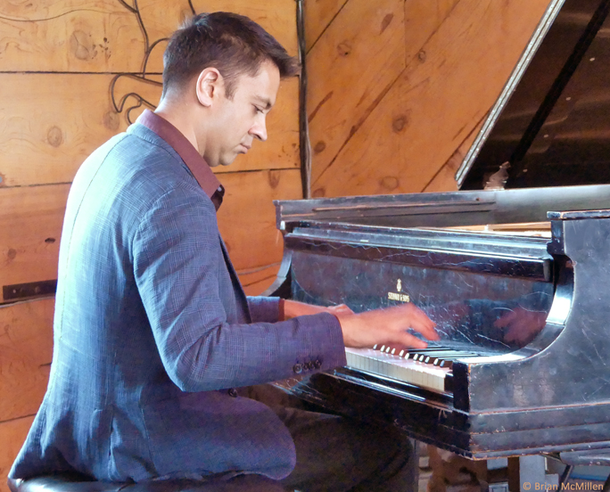 Vijay Iyer at Bach Dancing & Dynamite Society, Half Moon Bay CA 4/29/18 / Photo by Brian McMillen /